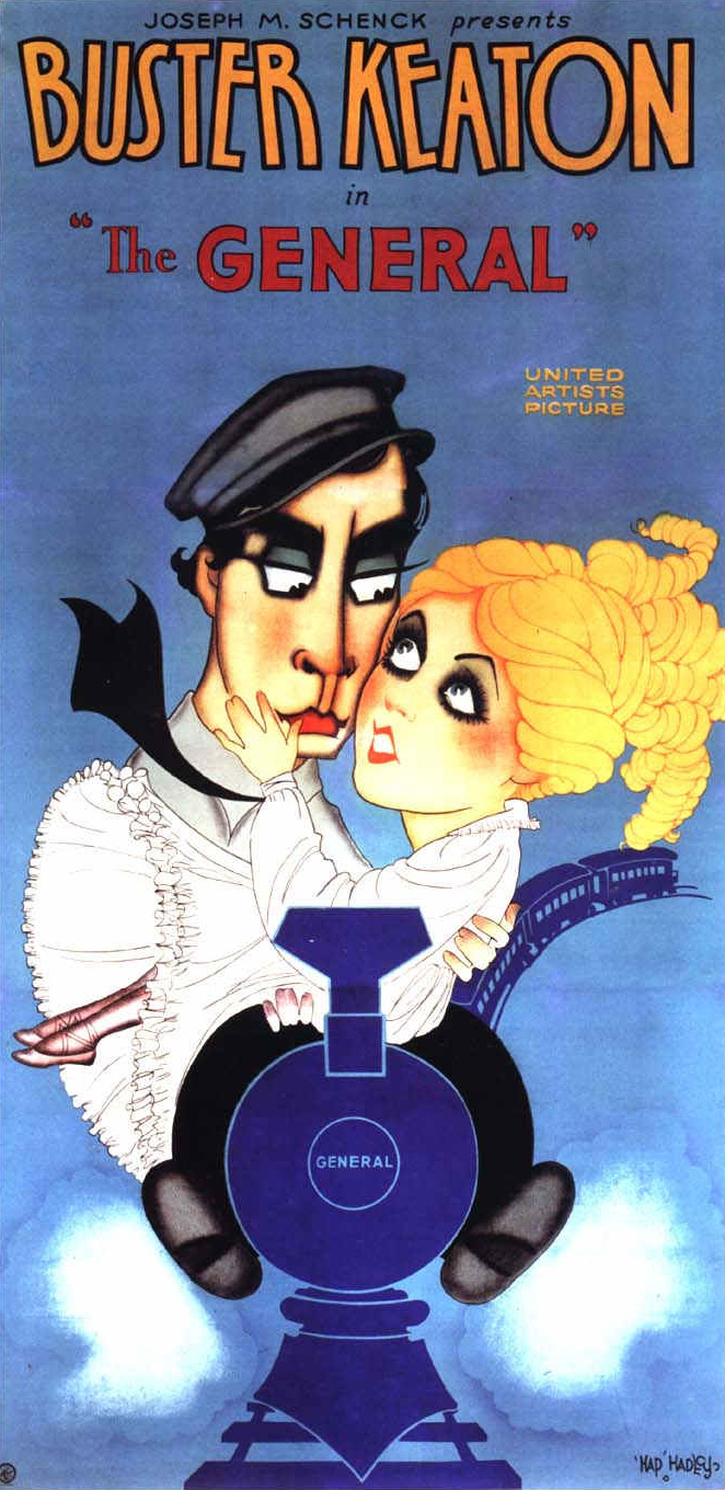 Poster for The General, a 1926 American silent comedy film released by United Artists. It was inspired by the Great Locomotive Chase, a true story of an event that occurred during the American Civil War. The film stars Buster Keaton who co-directed it with Clyde Bruckman.